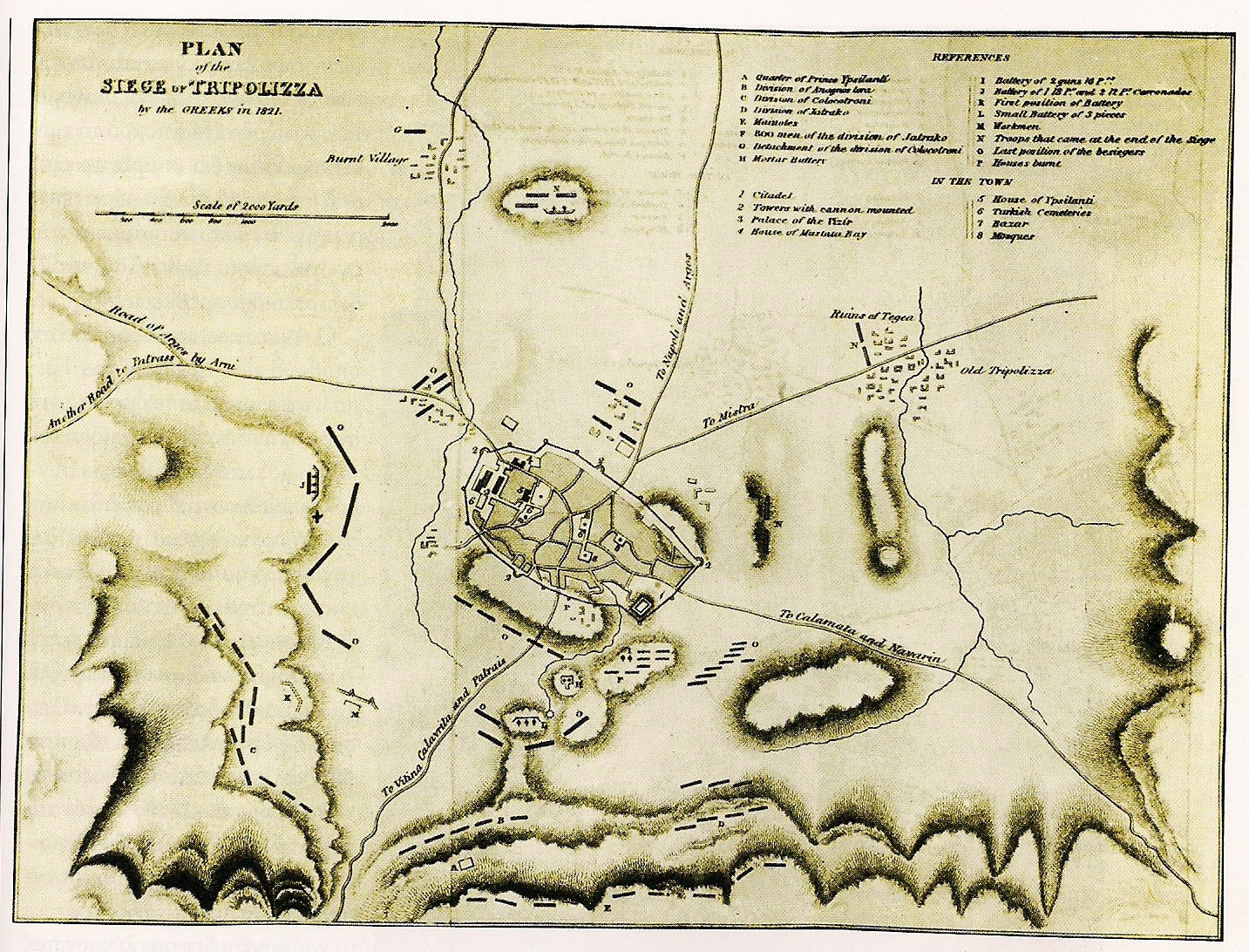 Plan of the Siege of Tripolitsa published in Thomas Gordon, History of the Greek Revolution, London, 1832. Republished in Dimitris Dimitropoulos, Theodoros Kolokotronis, 2009, p. 59, where it is scanned from.